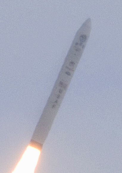 Team Vandenberg successfully launched the first Minotaur IV Lite launch vehicle at 4 p.m. Thursday, April 22, 2010, from Space Launch Complex-8 here. The rocket launched the Defense Advanced Research Projects Agency's Falcon Hypersonic Technology Vehicle 2. (U.S. Air Force photo/Airman 1st Class Andrew Lee)